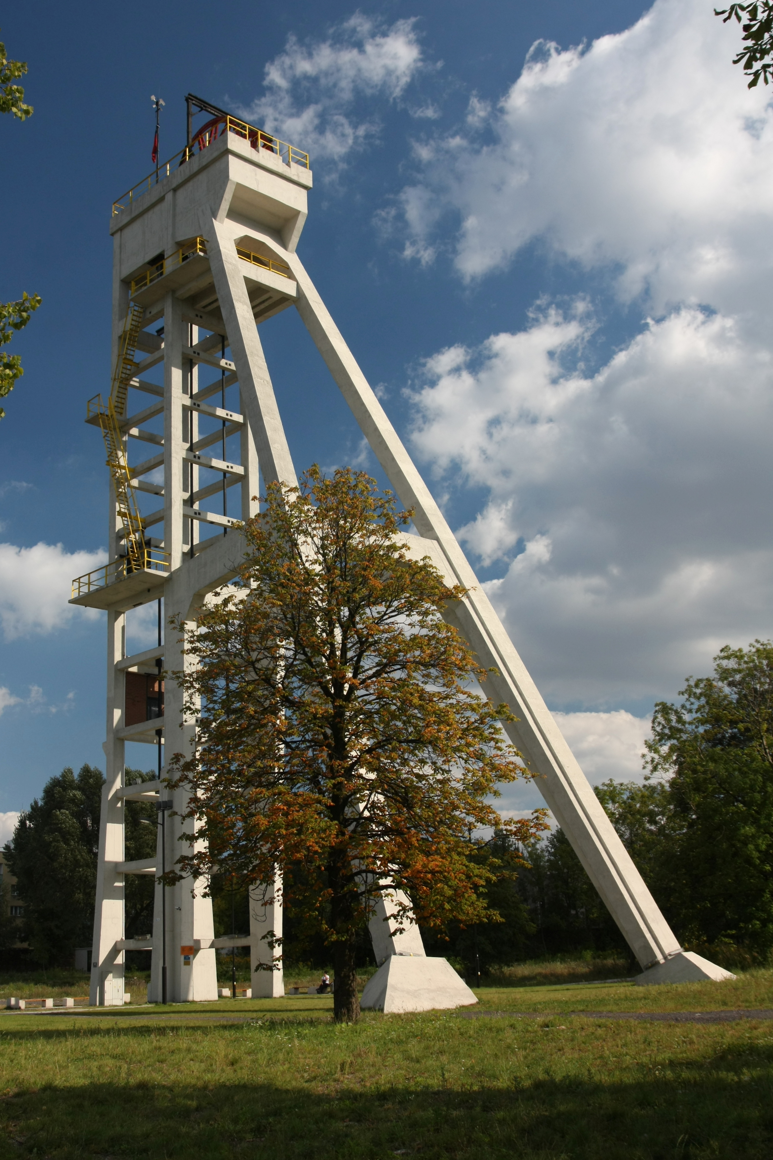 Headframe, old coal mine Prezydent, Chorzów, Poland.